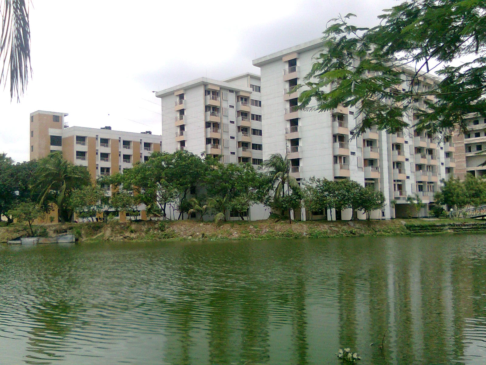 Dormitories